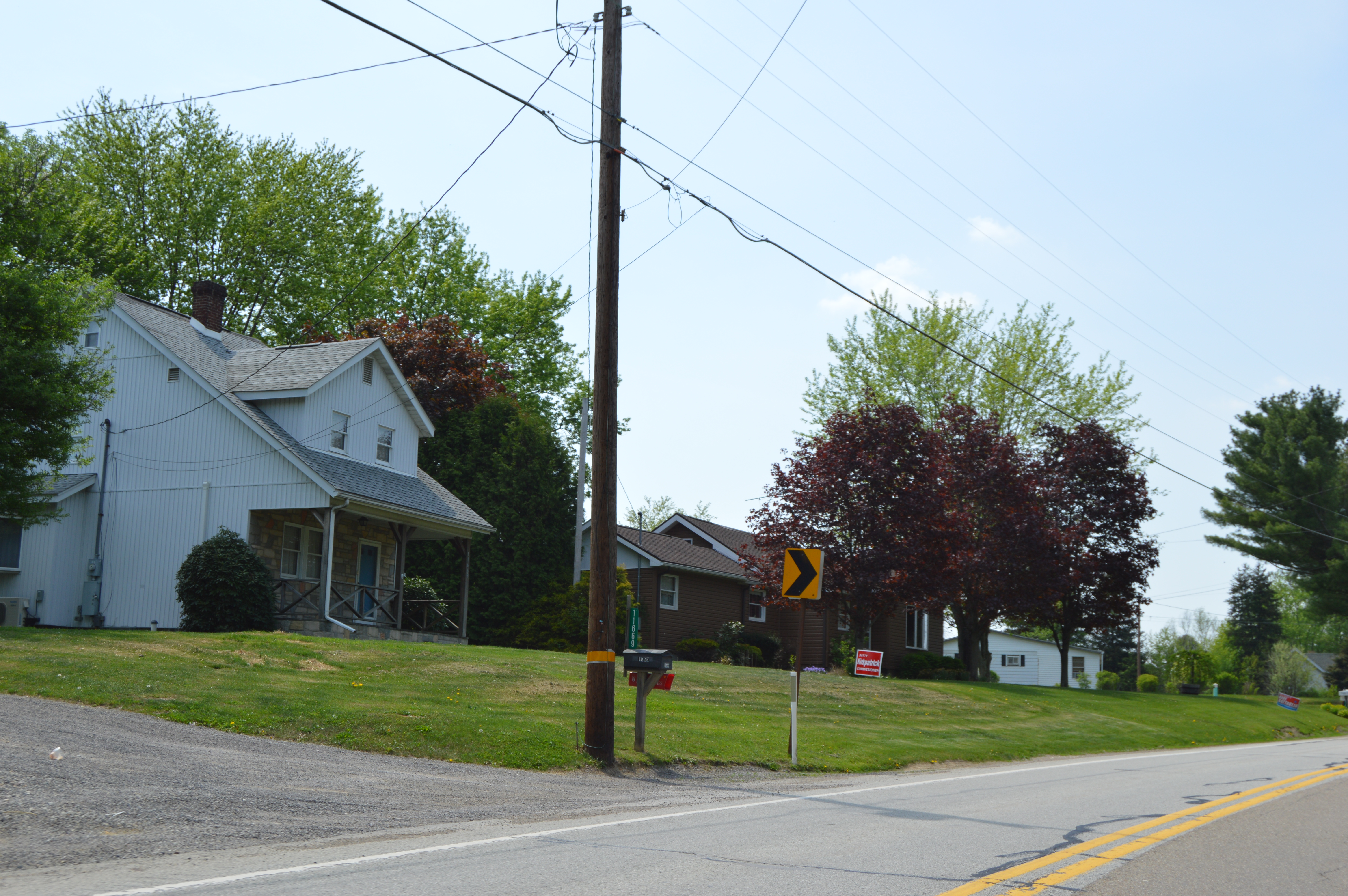 Houses on the southern side of Pennsylvania Route 85 in Sunnyside, Pennsylvania, United States.